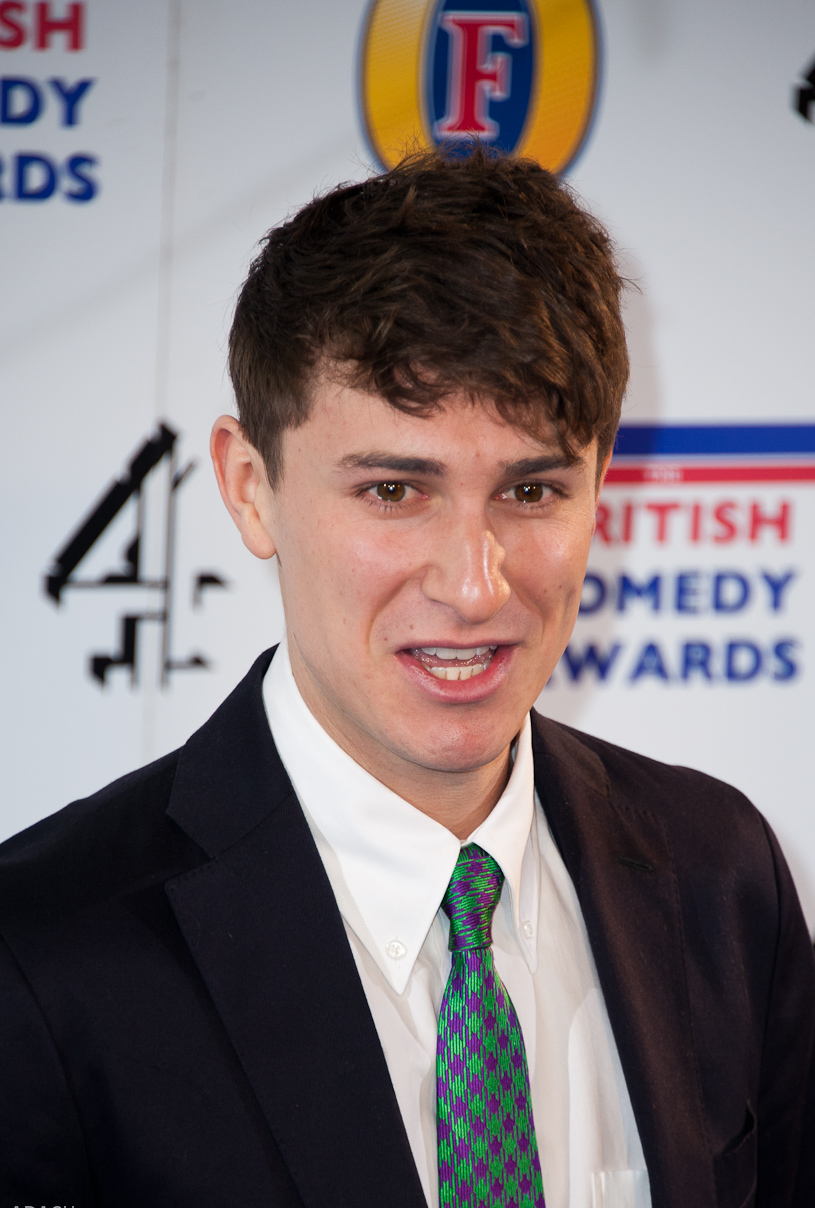 Tom Rosenthal at the 2013 British Comedy Awards, 12 December 2013